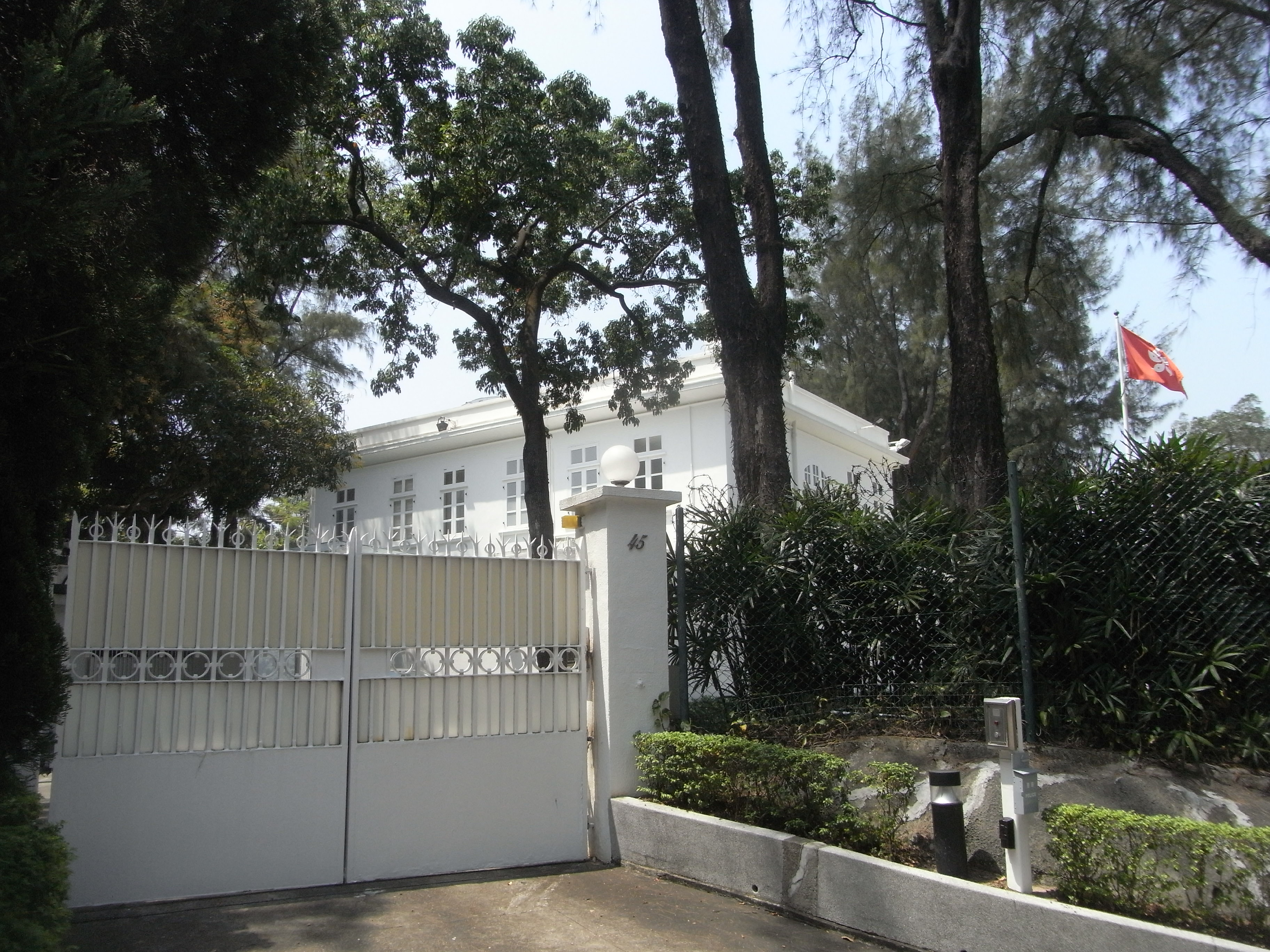 香港島南區壽山村道